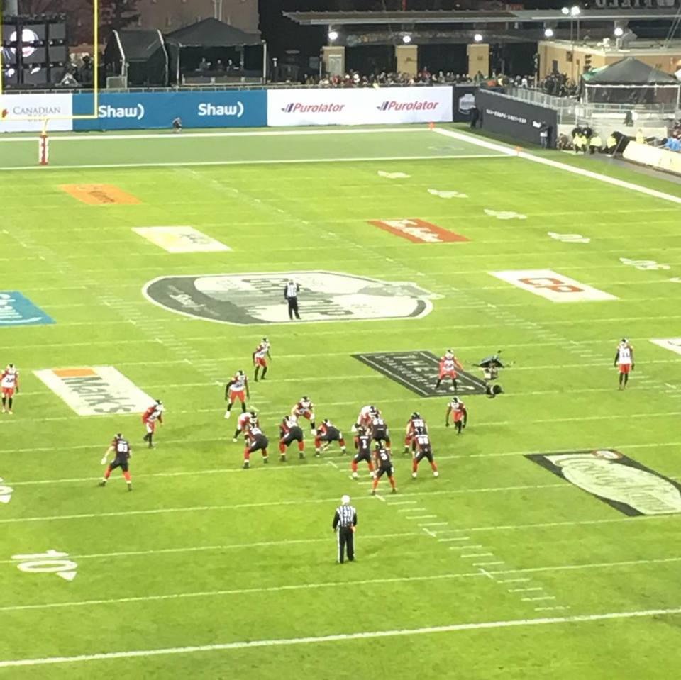 104th Grey Cup game in Toronto with the Ottawa Redblacks on offense versus the Calgary Stampeders.